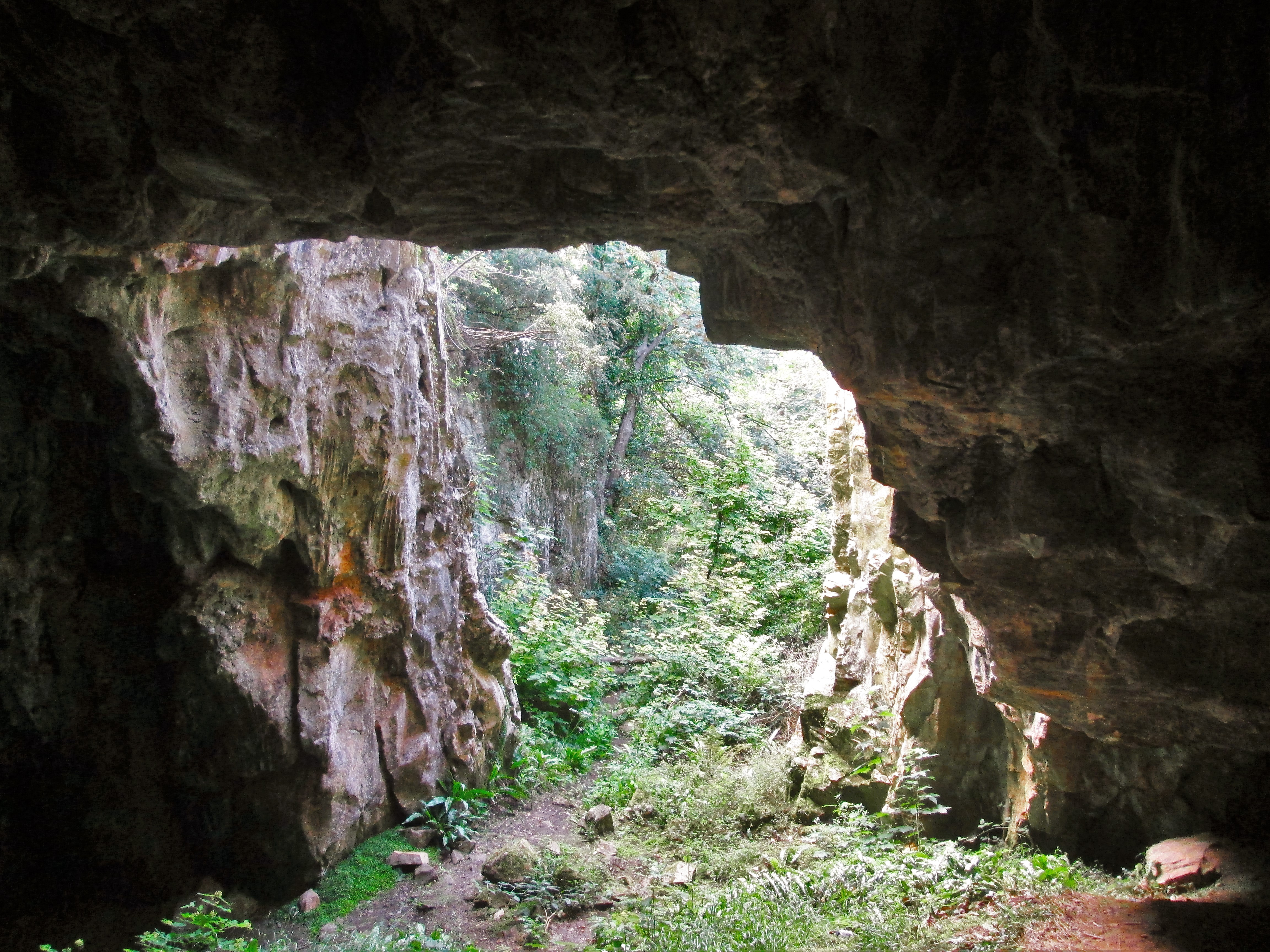 Ashhole Cavern, Brixham, Devon.